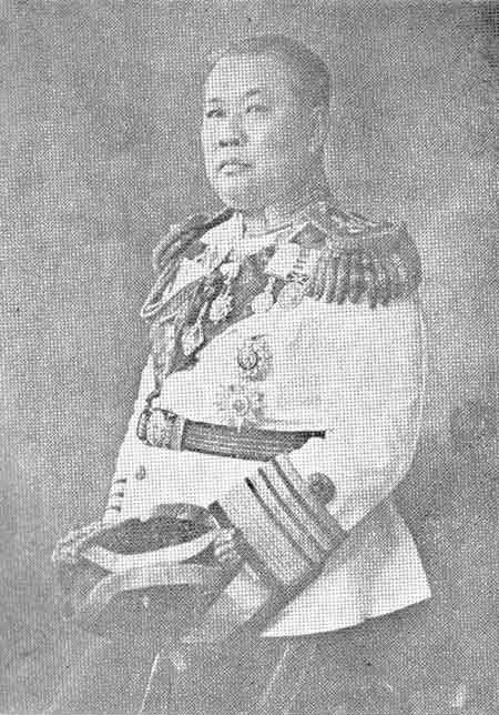 Prince Vudhijaya Chalermlabh, The Prince Singhavikrom. King Chulalongkorn of Siam.